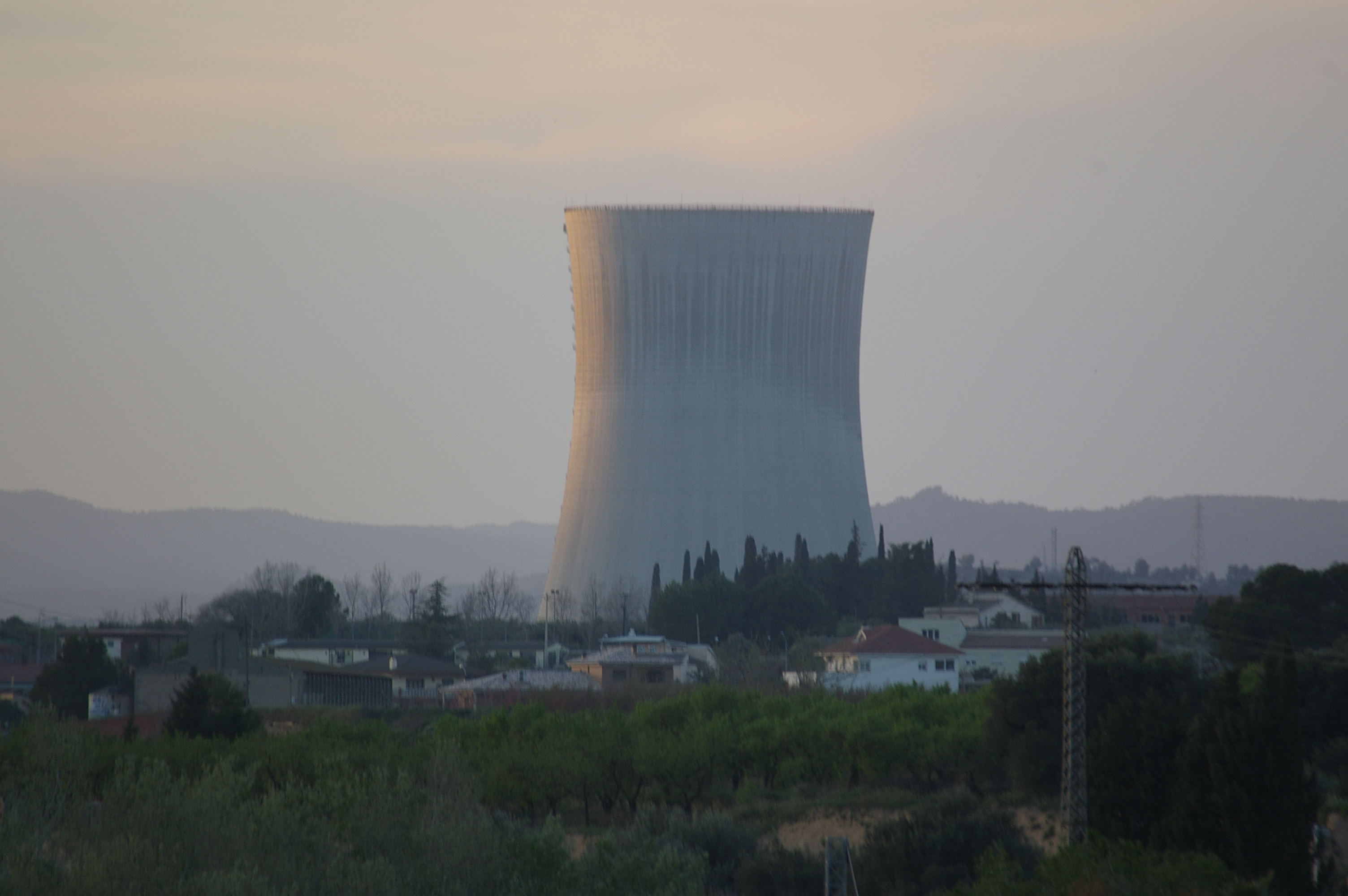 View of the cooling tower of the Ascó nuclear power plant